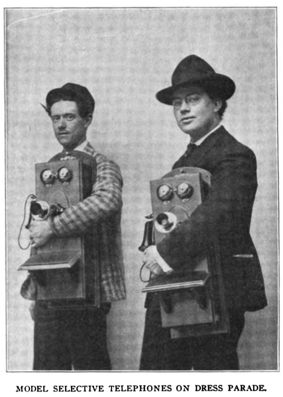 Two dudes with phones.